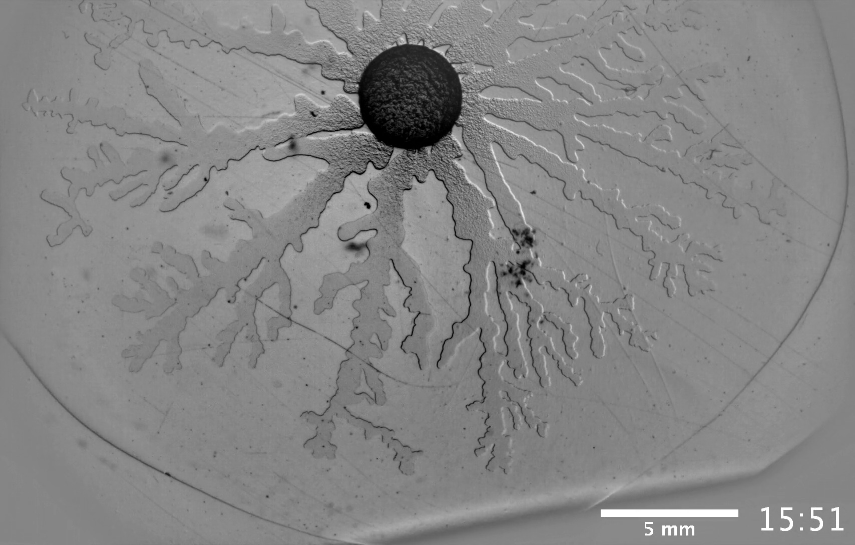 Bacillus subtilis mass-swarming outwards on a gel substrate from the mother colony visible at the top middle. Time in the lower right is counted in H:M from inoculation, and swarming started at 11:35 (256 minutes before this picture was taken). The swarming dendrites are preceded by a circular ring of surfactant produced by the bacteria.